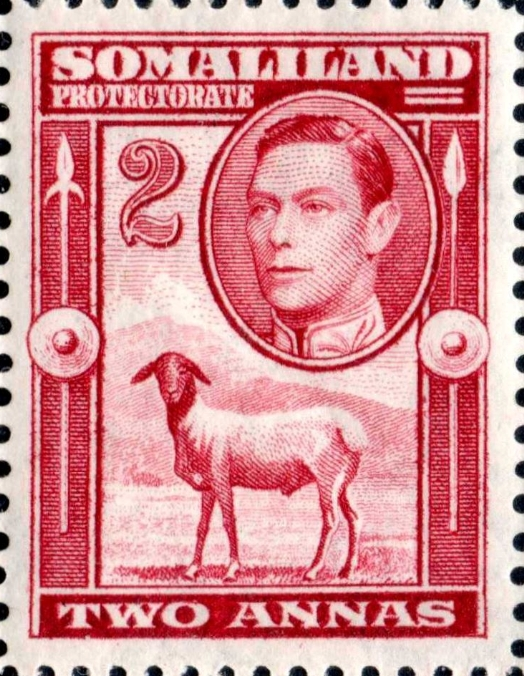 A 2a stamp of the Somaliland Protectorate showing King George VI. (Image cropped from a larger block of stamps)